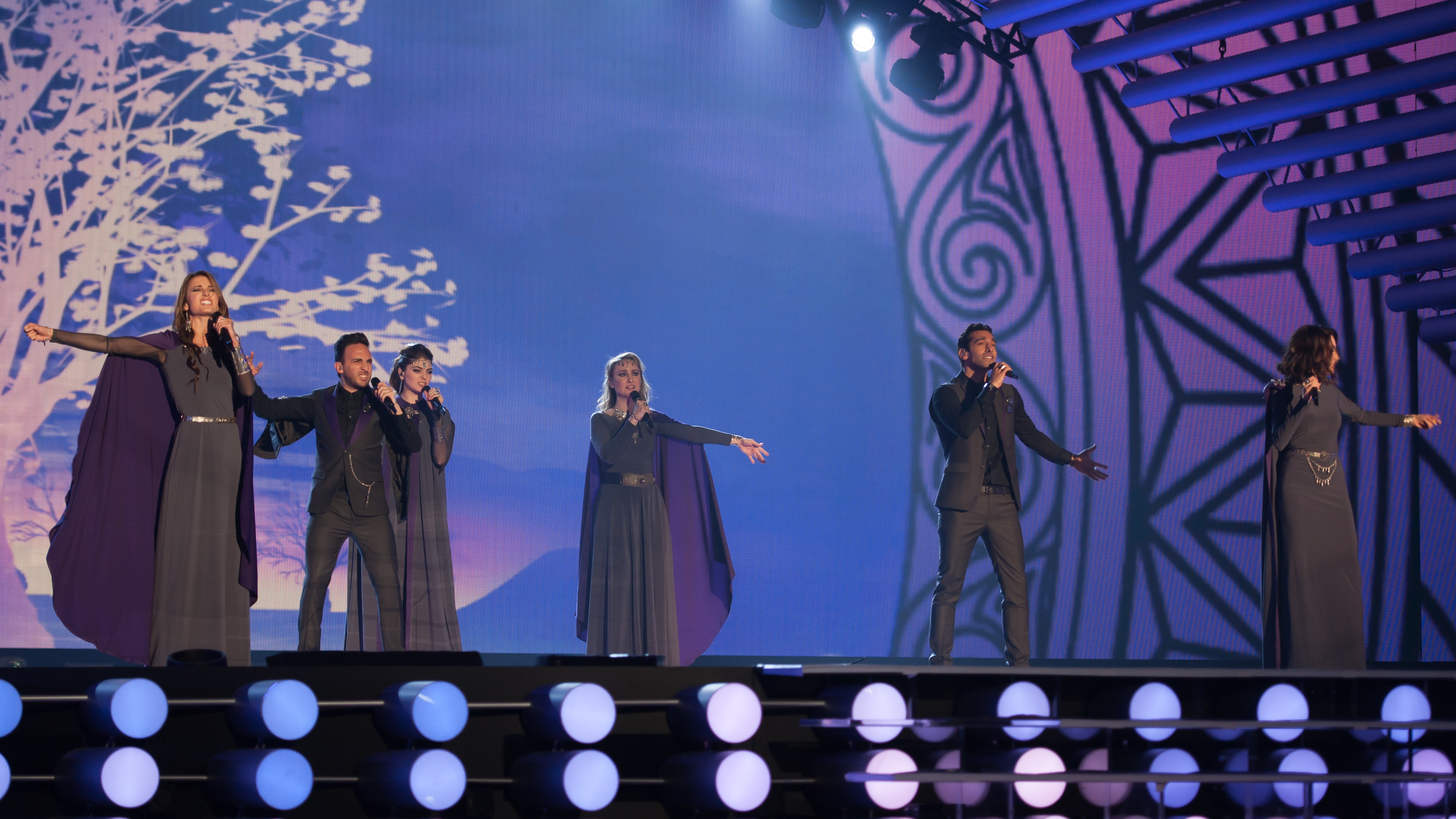 Eurovision Song Contest Vienna 2015: Genealogy, Armenia